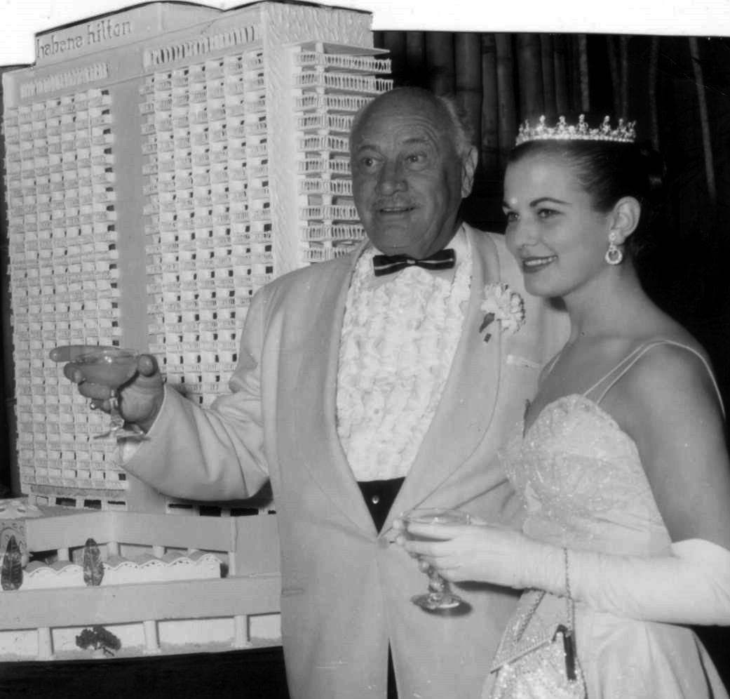 Dorothy Johnson and Conrad Hilton. Havana, Cuba. March 23, 1958